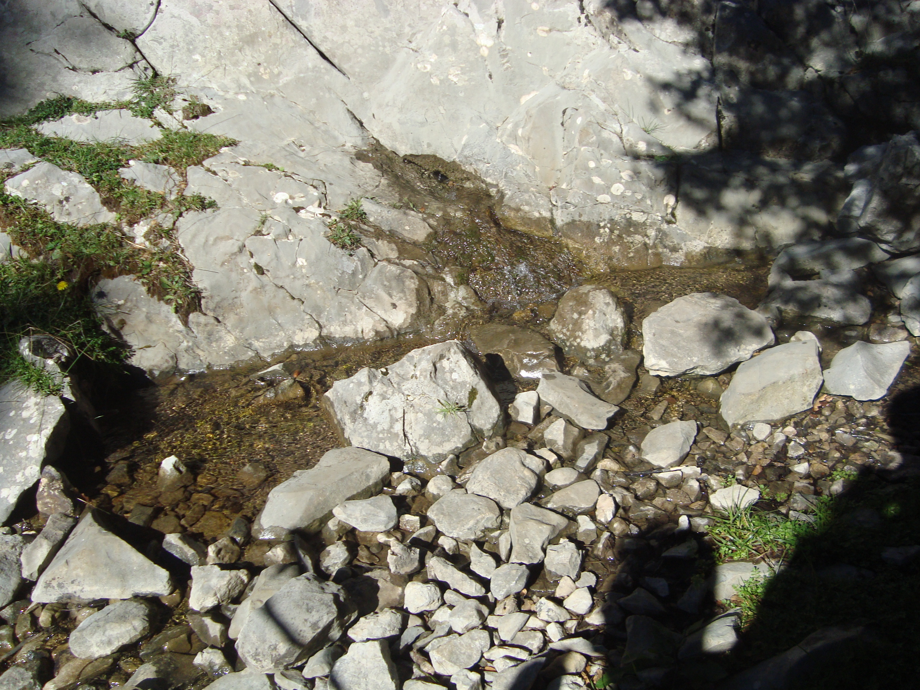 Pineios Elisriver, first source water Kefalobriso in Mountain Erymanthos